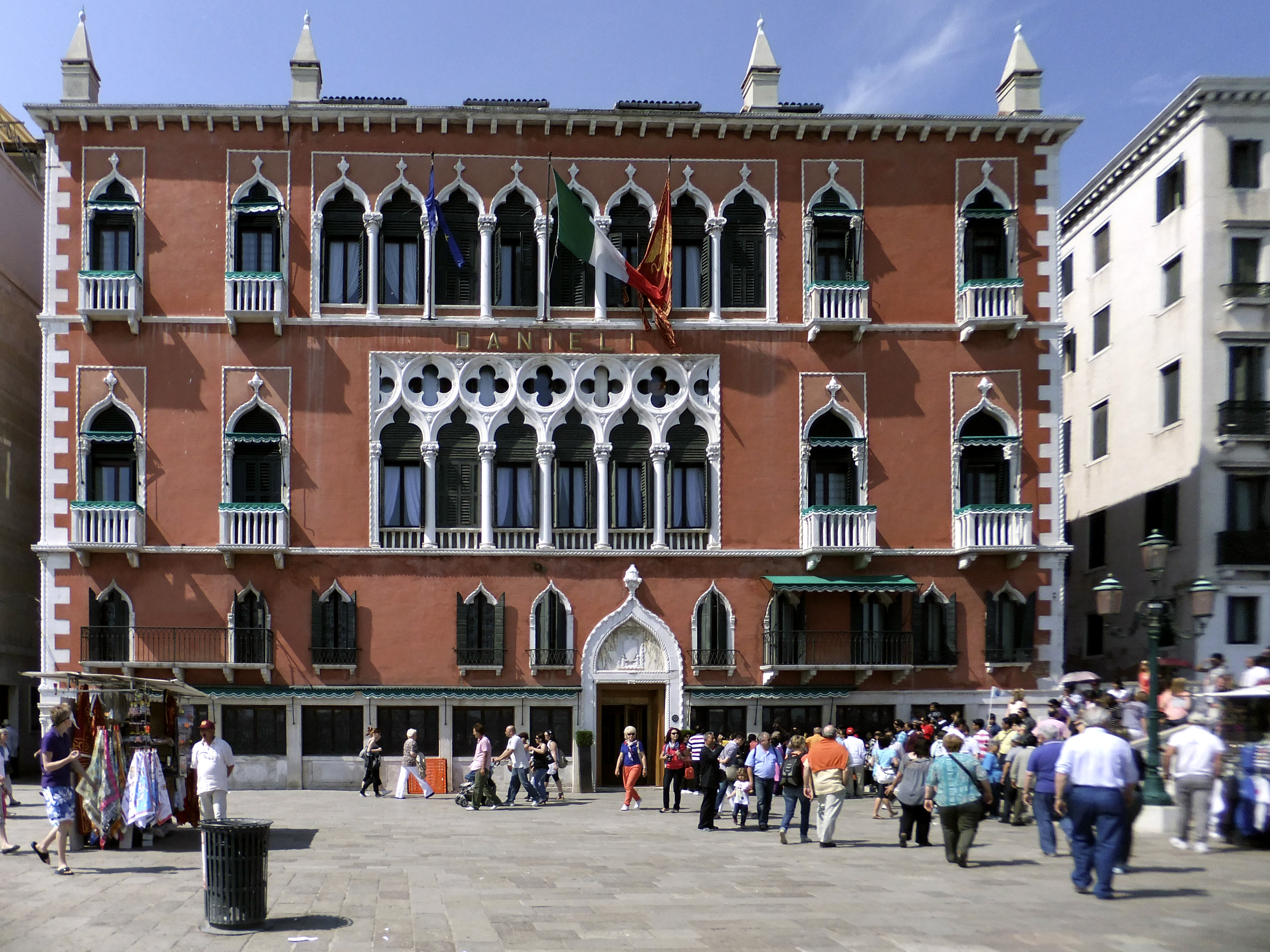 Outside view of the front of Hotel Danieli (former Dandolo Palace) in Venice, Italy. Date of picture: 27 May 2012.